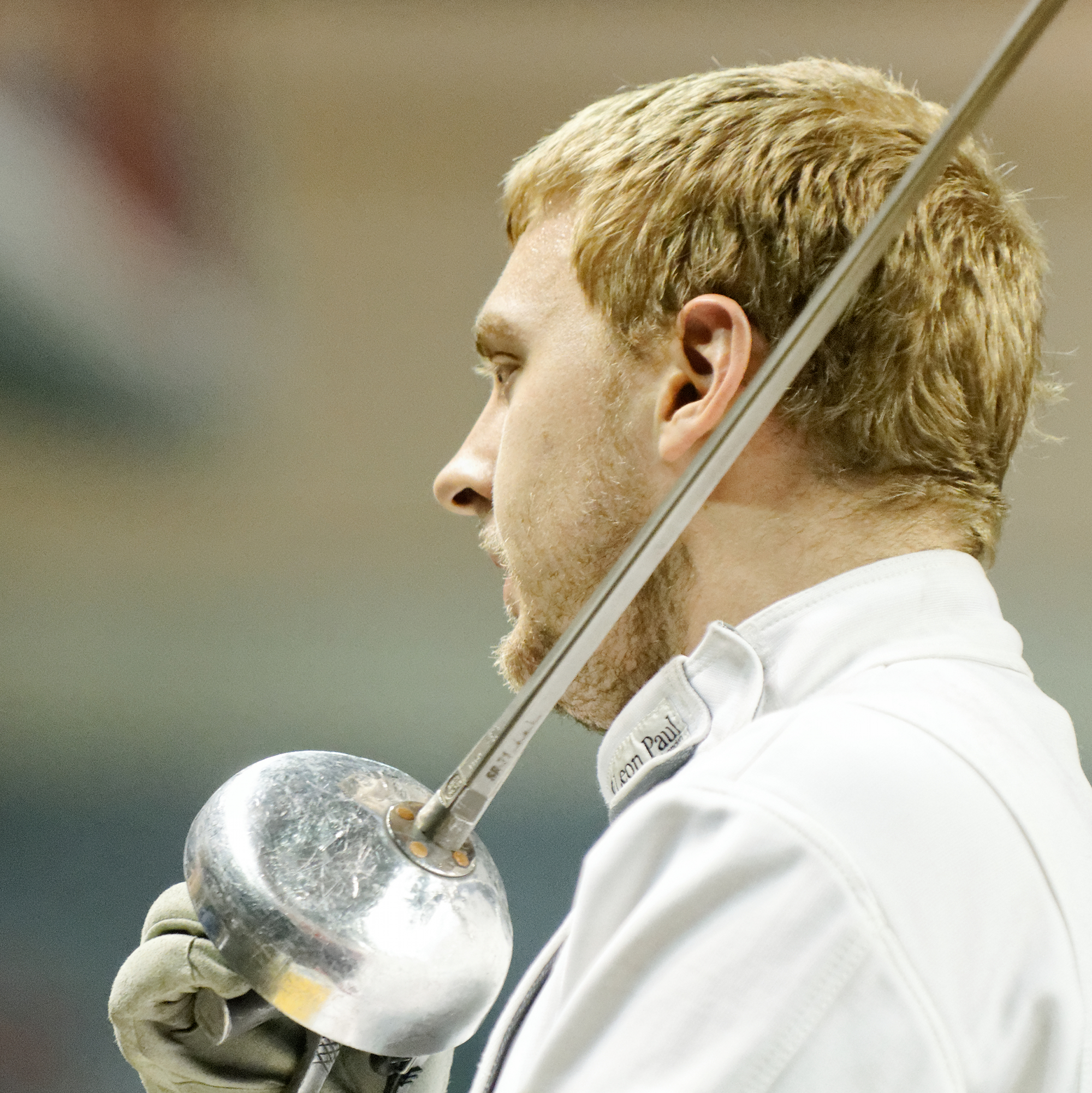 American fencer Weston Kelsey during the Challenge Réseau Ferré de France–Trophée Monal 2012.